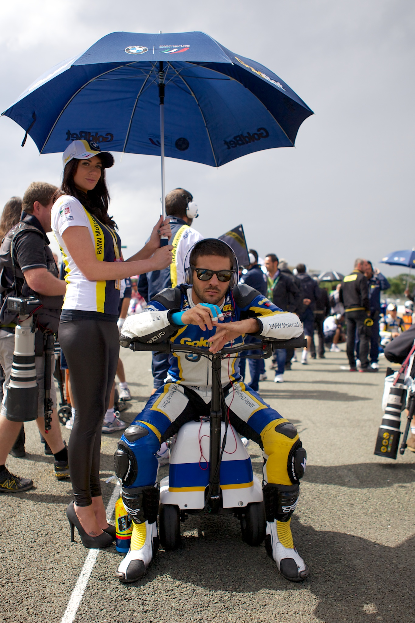 Michel Fabrizio on the grid in front of his Goldbet BMW, at World Superbikes, Silverstone 2012